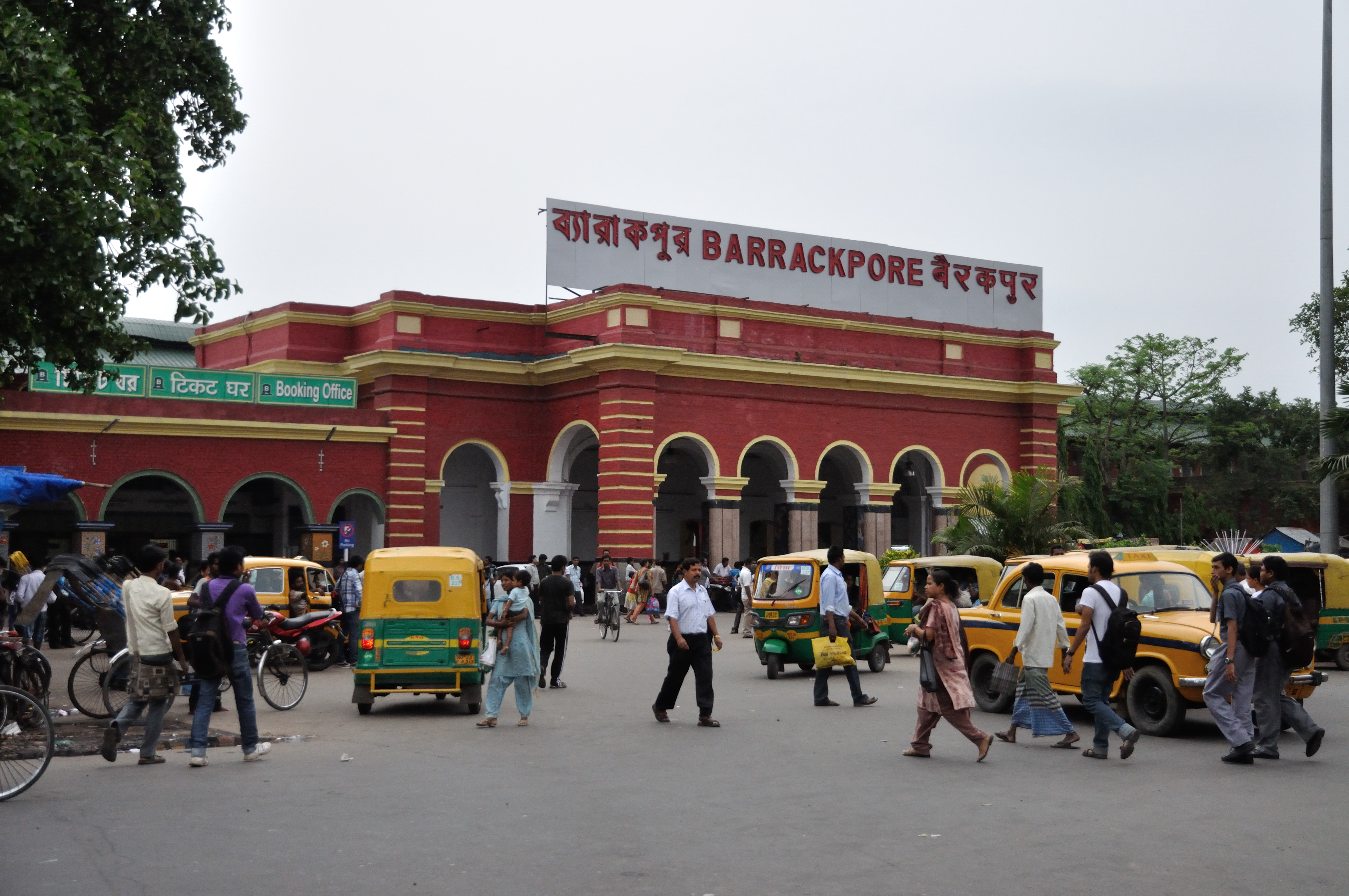 Photographed in West Bengal.